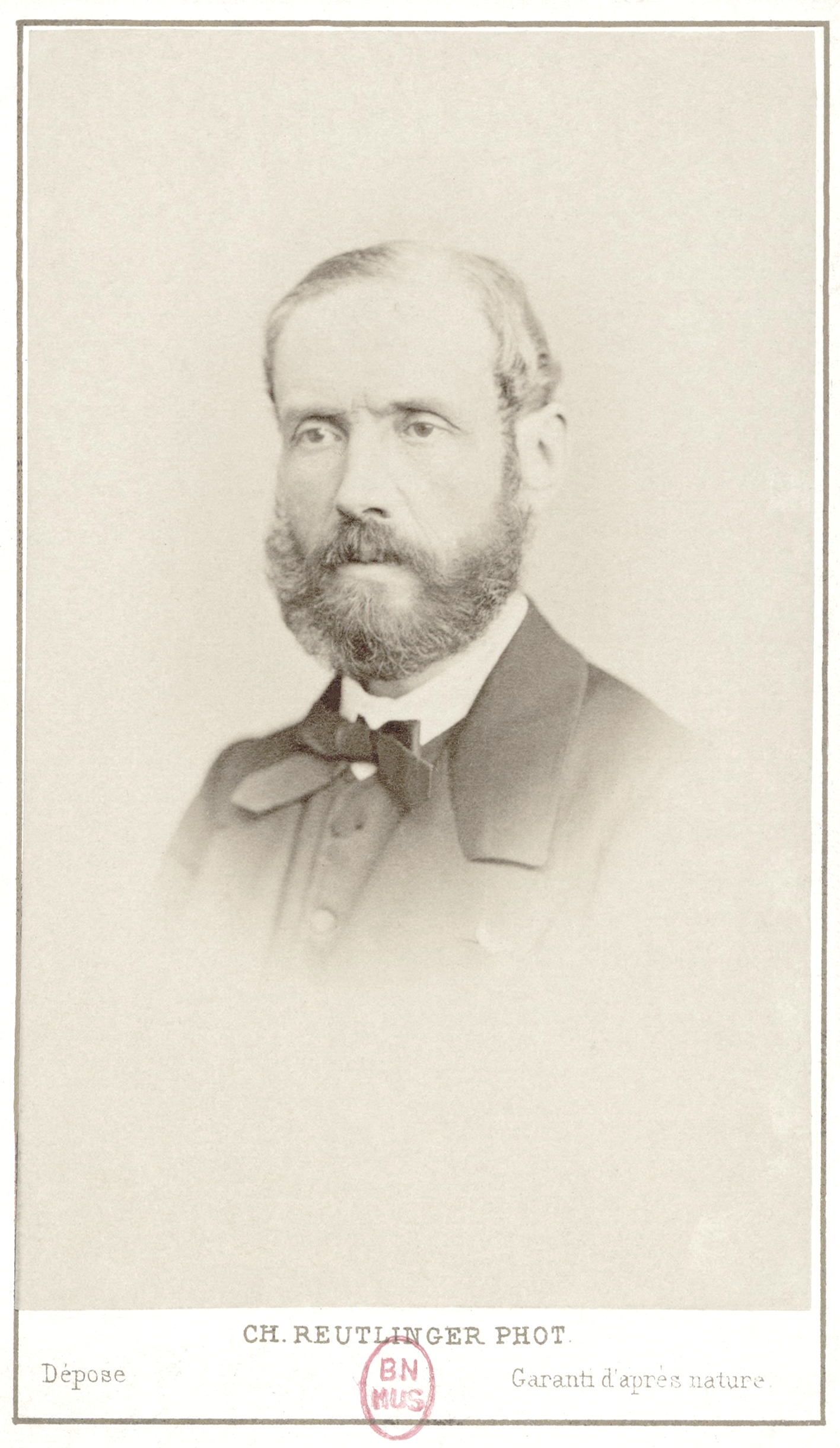 Louis James Alfred Lefébure-Wély, french composer and organist (1817-1869)